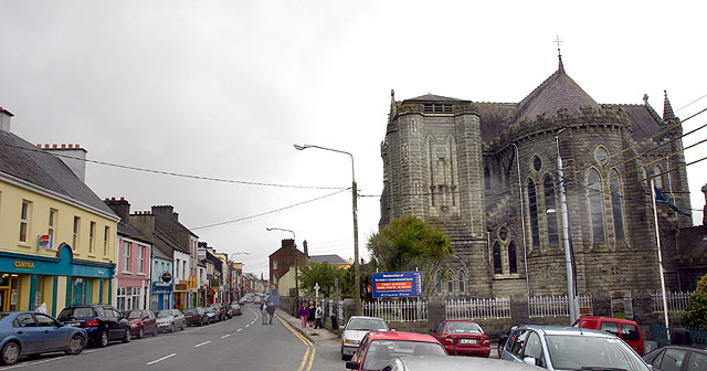 Cahersiveen. The sign outside the Daniel O'Connell Memorial church is inviting donations towards the restoration: currently the fund stands at 500,000 euros (10% of the target).